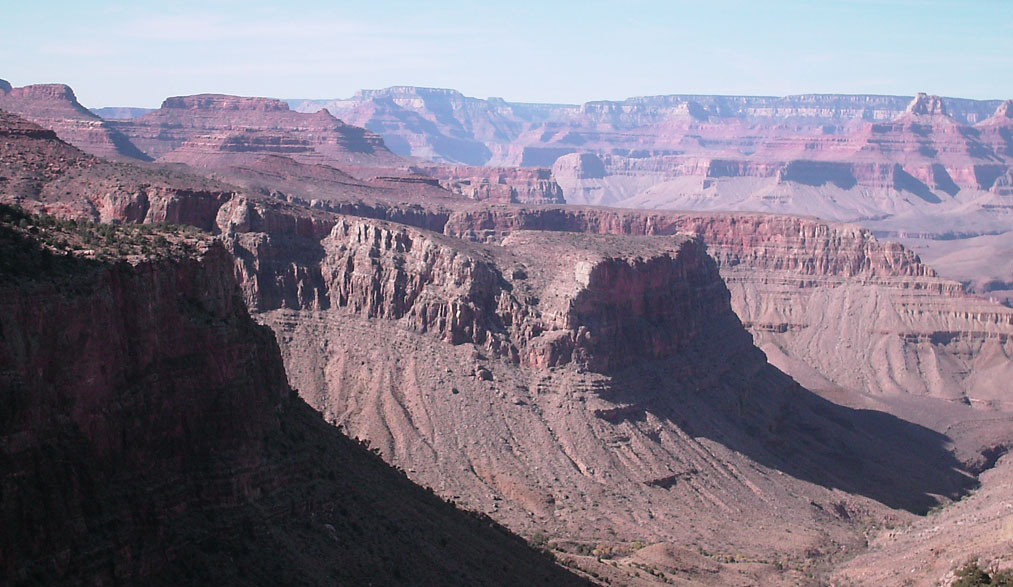 The Grandview-Phantom Monocline in the Grand Canyon, Arizona, veiwed facing northwest from the Grandview Trail south of Horseshoe Mesa. Oct. 2008.